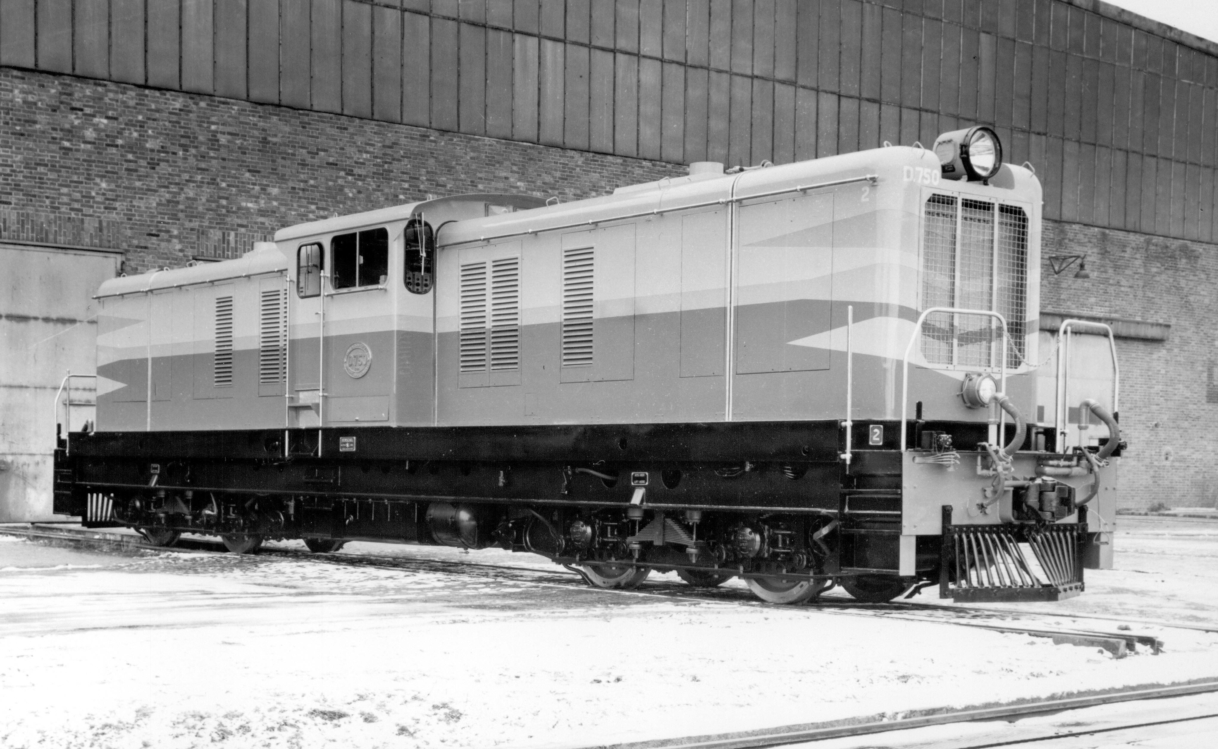 South African Class 61-000 61-006 Builder's Number: Henschel 29750 Type: Diesel-hydraulic shunter Location: Henschel factory, Kassel, Germany Renumbering: Renumbered from D750 to 61-006 (SAR) Reclassification: To Rhodesian Railways Class DH1